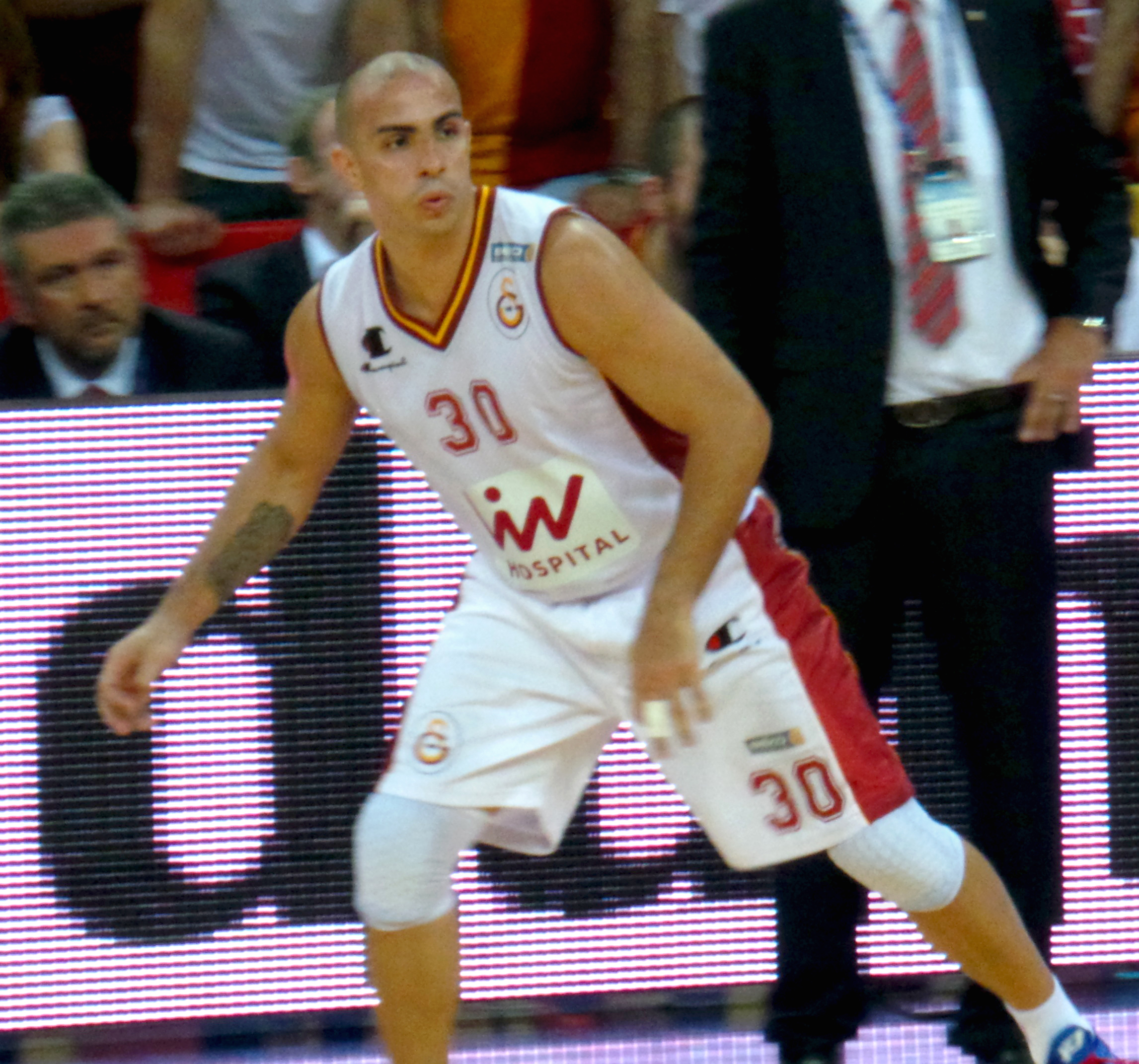 Carlos Aroyyo'13 against Banvit